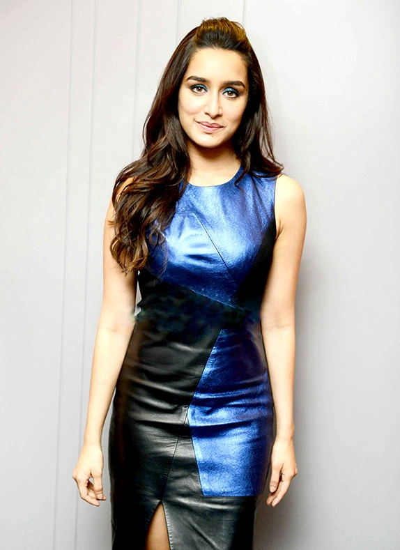 Shraddha Kapoor snapped at Media meet of her film 'Baaghi' in 2016